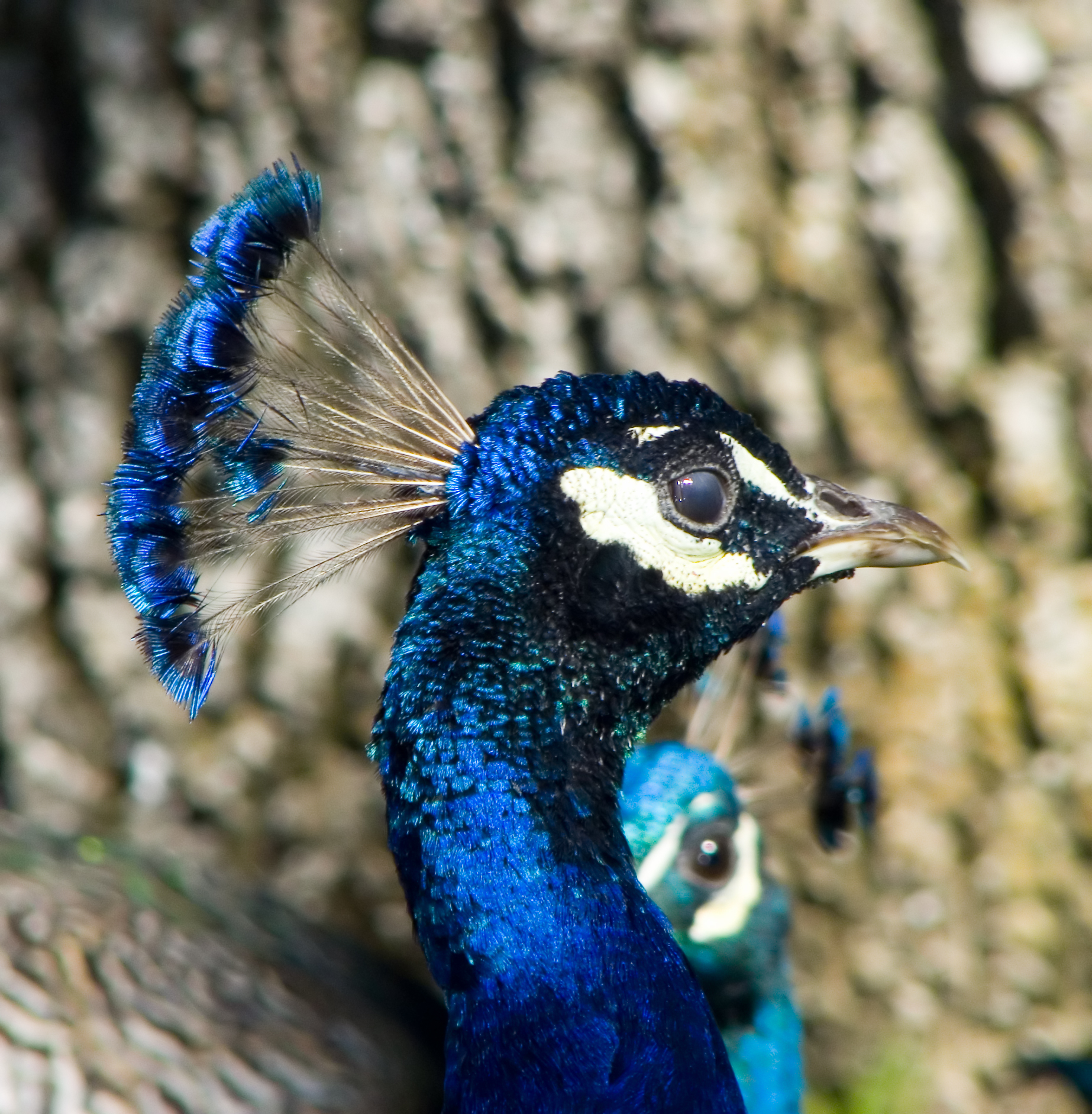 The head of a male Indian Blue peacock.